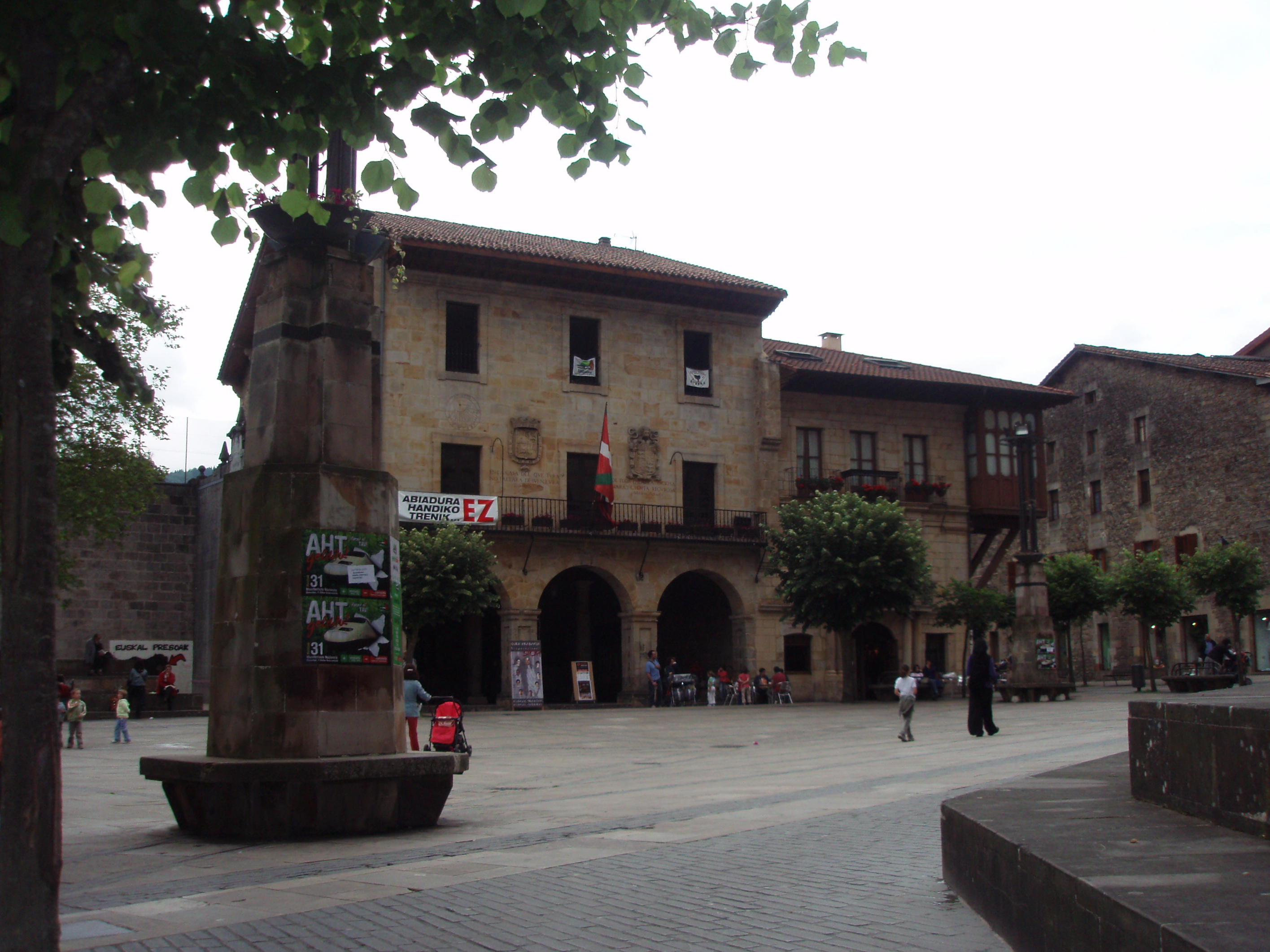 The central plaza of Elorrio, Spain.